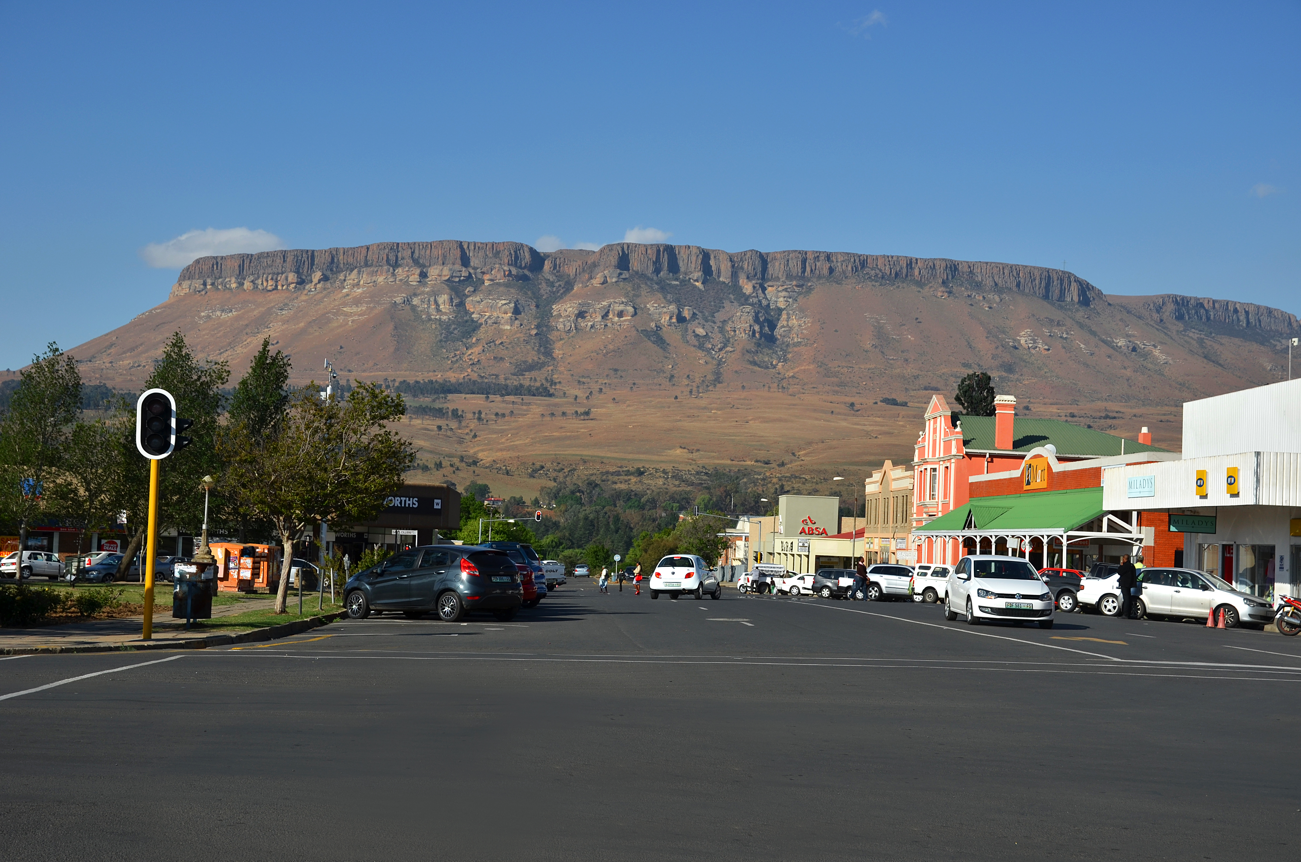 Harrismith, Jihoafrická republika